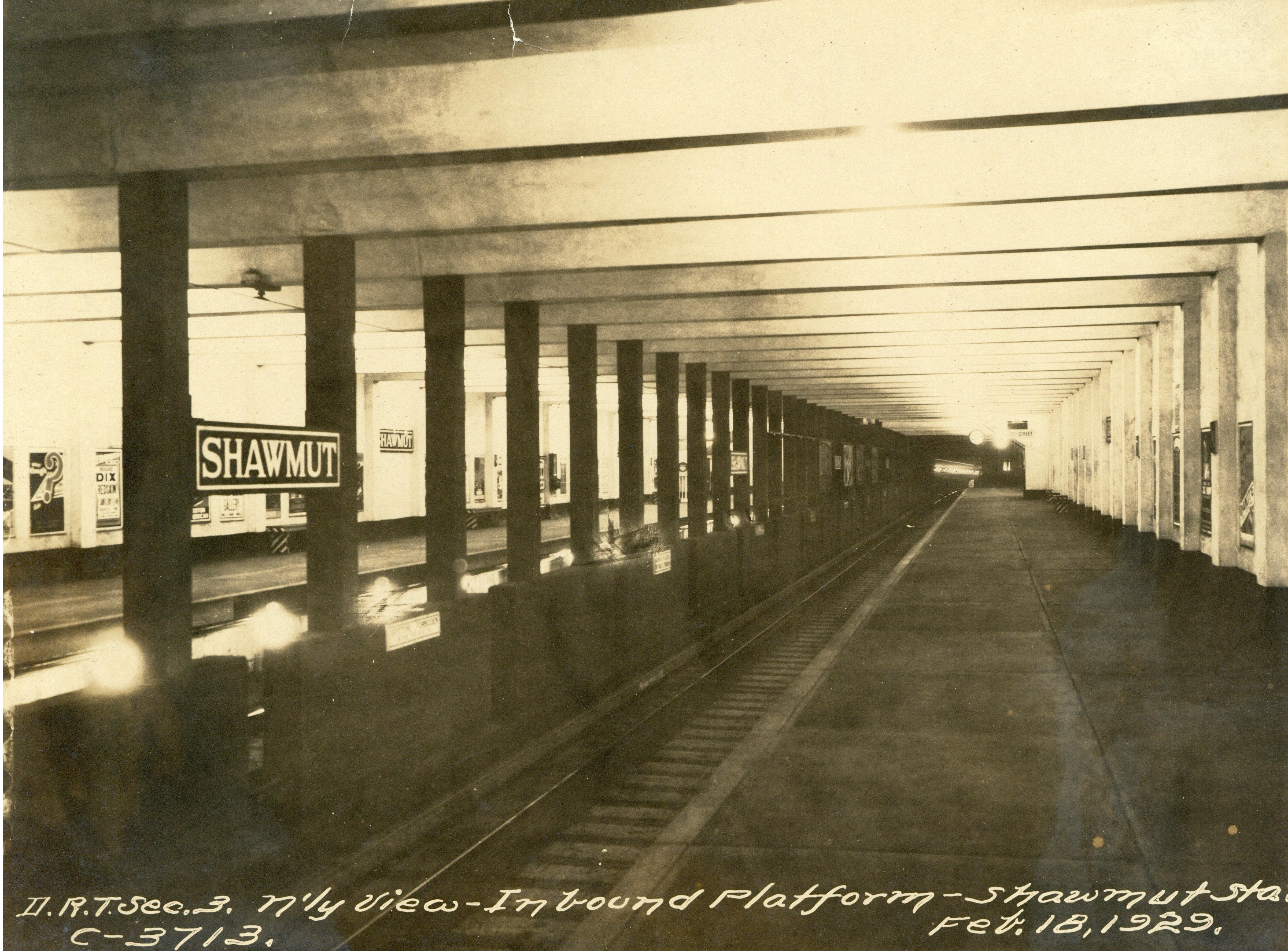 Inbound platform at Shawmut station in February 1929